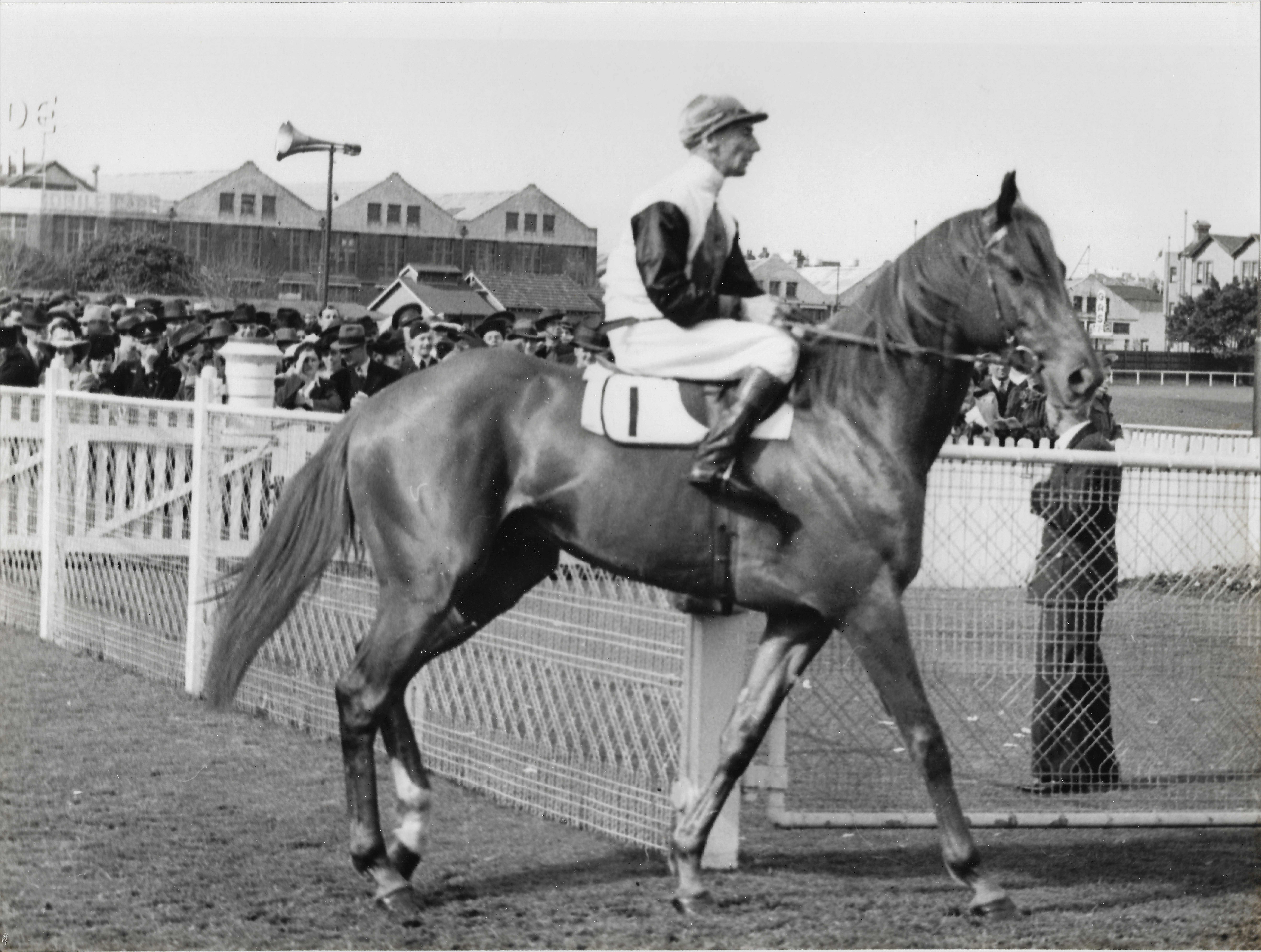 High resolution scan from original photo